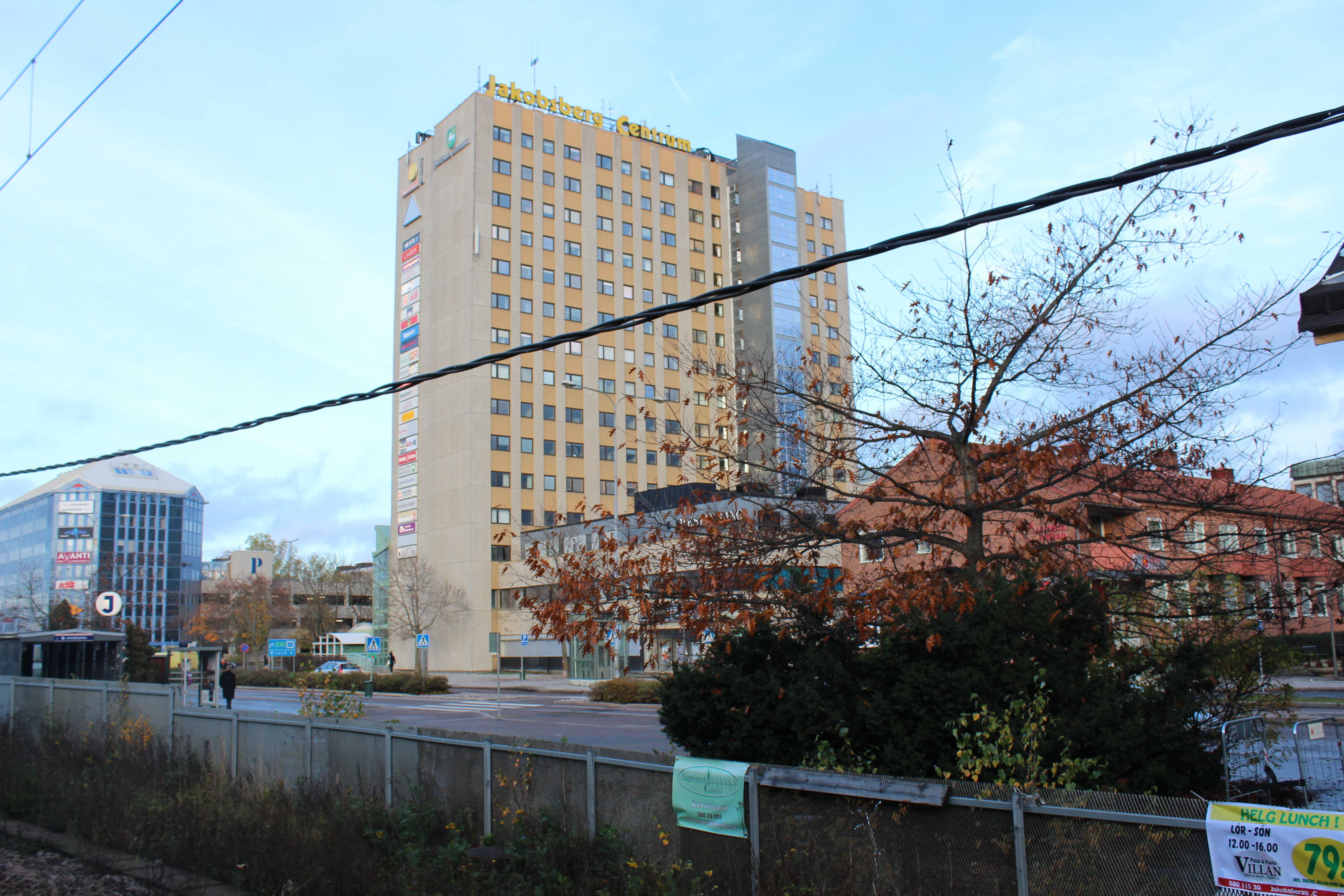 Jakobsbergs centrum